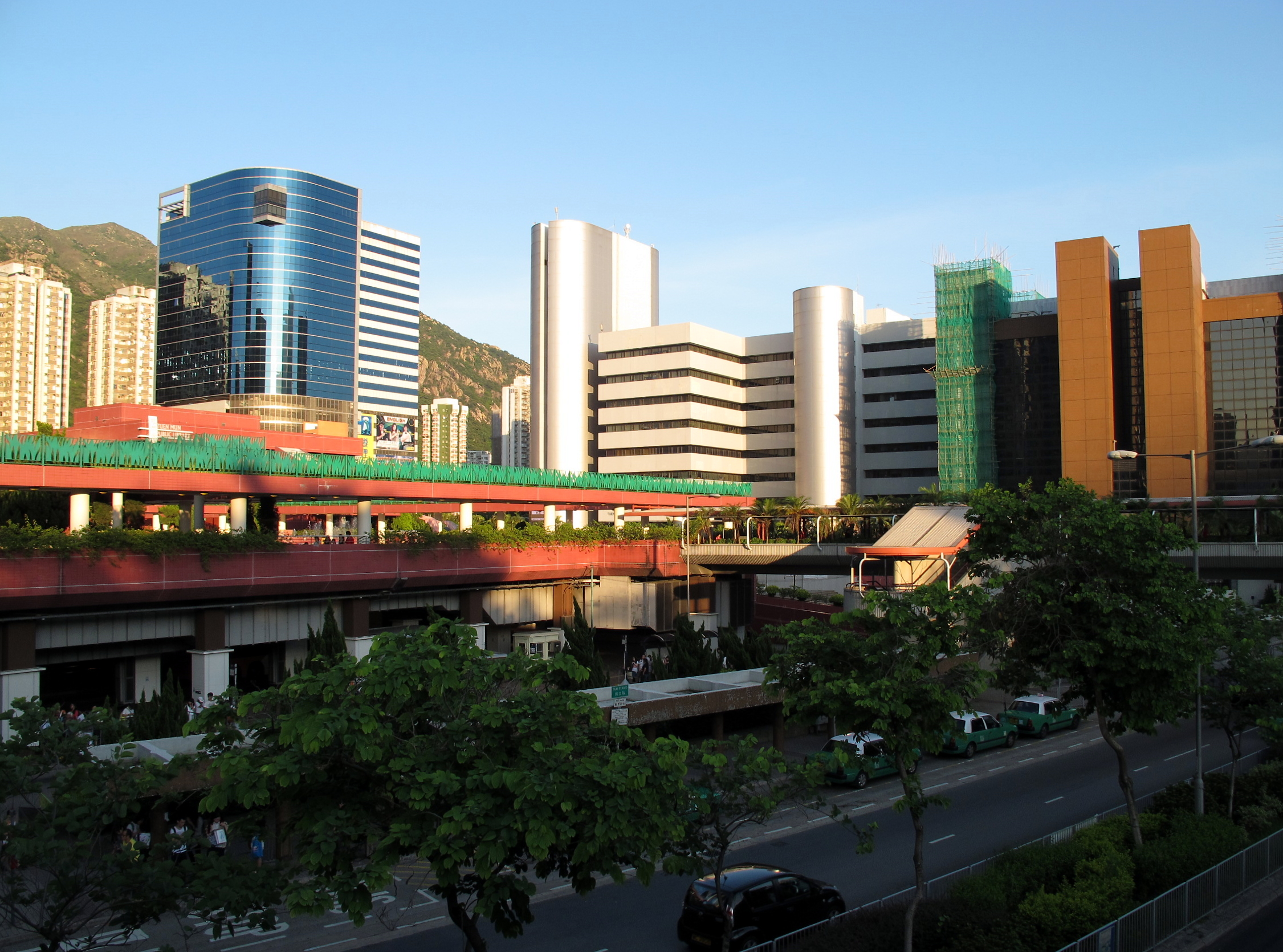 Tuen Mun Town Centre 屯門文娛廣場